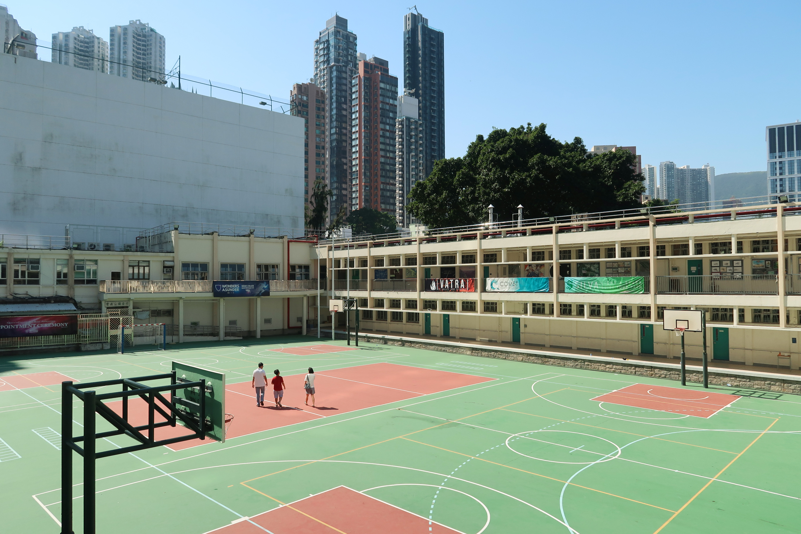 Queen's College Playground